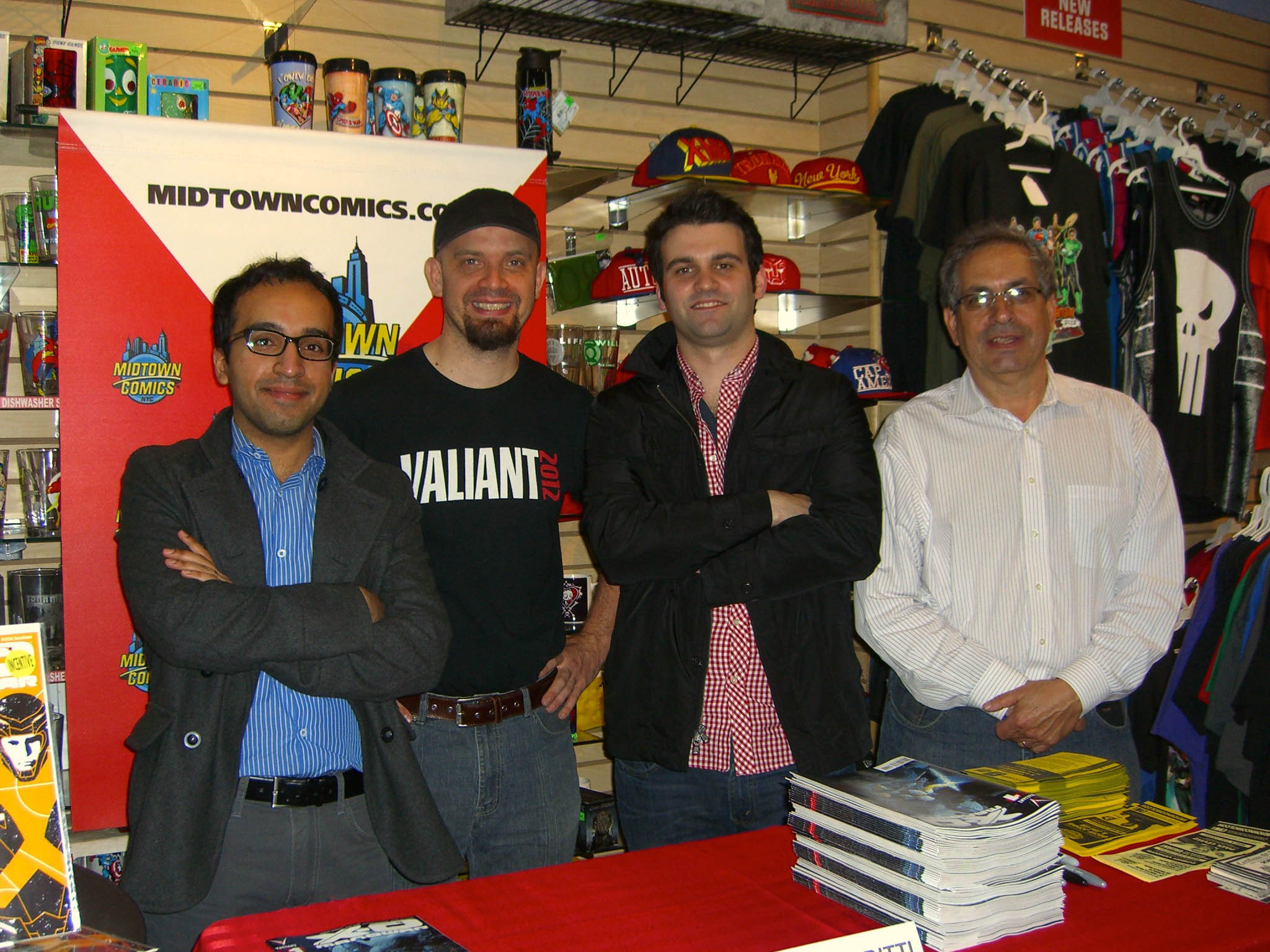 Personnel and creators of Valiant Comics at a May 2, 2012 store signing for X-O Manowar Vol 3 #1 at Midtown Comics Downtown in Lower Manhattan. From left to right: Chief Creative Officer Dinesh Shamdasani, Sales Manager Atom! Freeman, Marketing and Communications Manager Hunter Gorinson and Publisher Fred Pierce. This photo was created by Luigi Novi. It is not in the public domain, and use of this file outside of the licensing terms is a copyright violation.